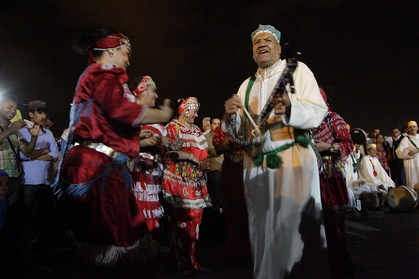 dance of chleuhs (amazigh) in place jamaa el fna marrakesh